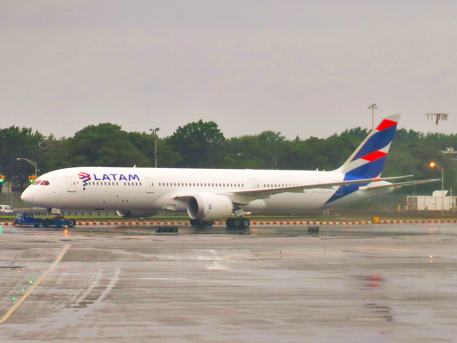 A LATAM Chile Boeing 787-9 Dreamliner is being towed around Terminal 8 at John F. Kennedy International Airport to its gate at Terminal 8 to board passengers for its return flight to Santiago.